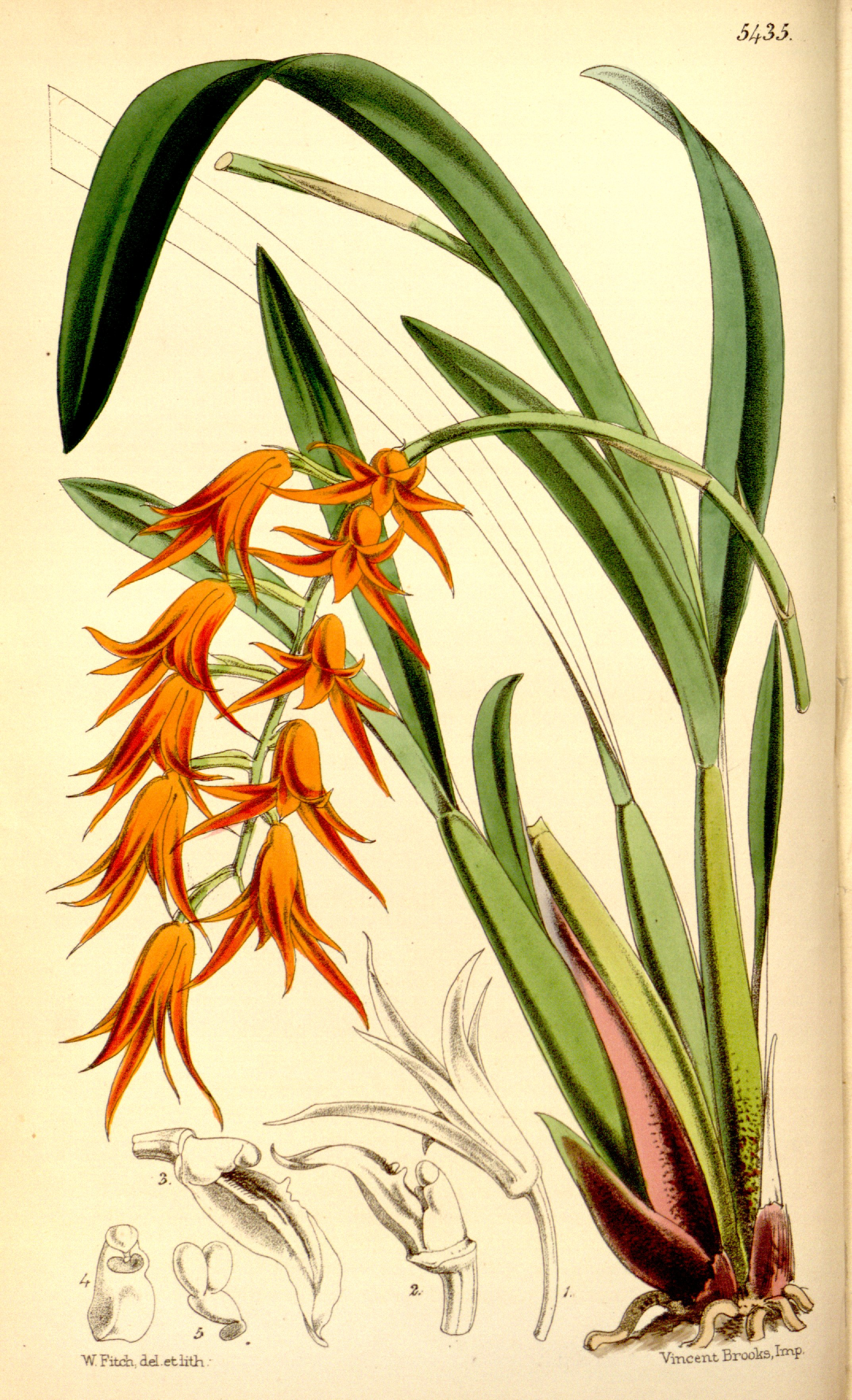 Illustration of Ada aurantiaca